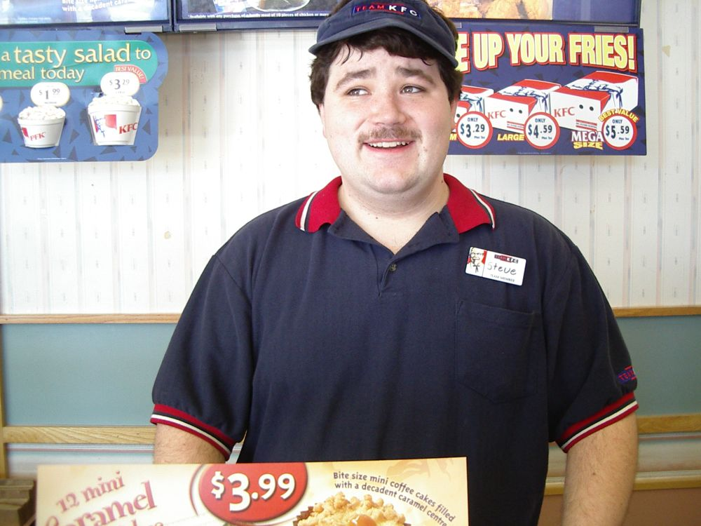 Taken by self, of a friend.